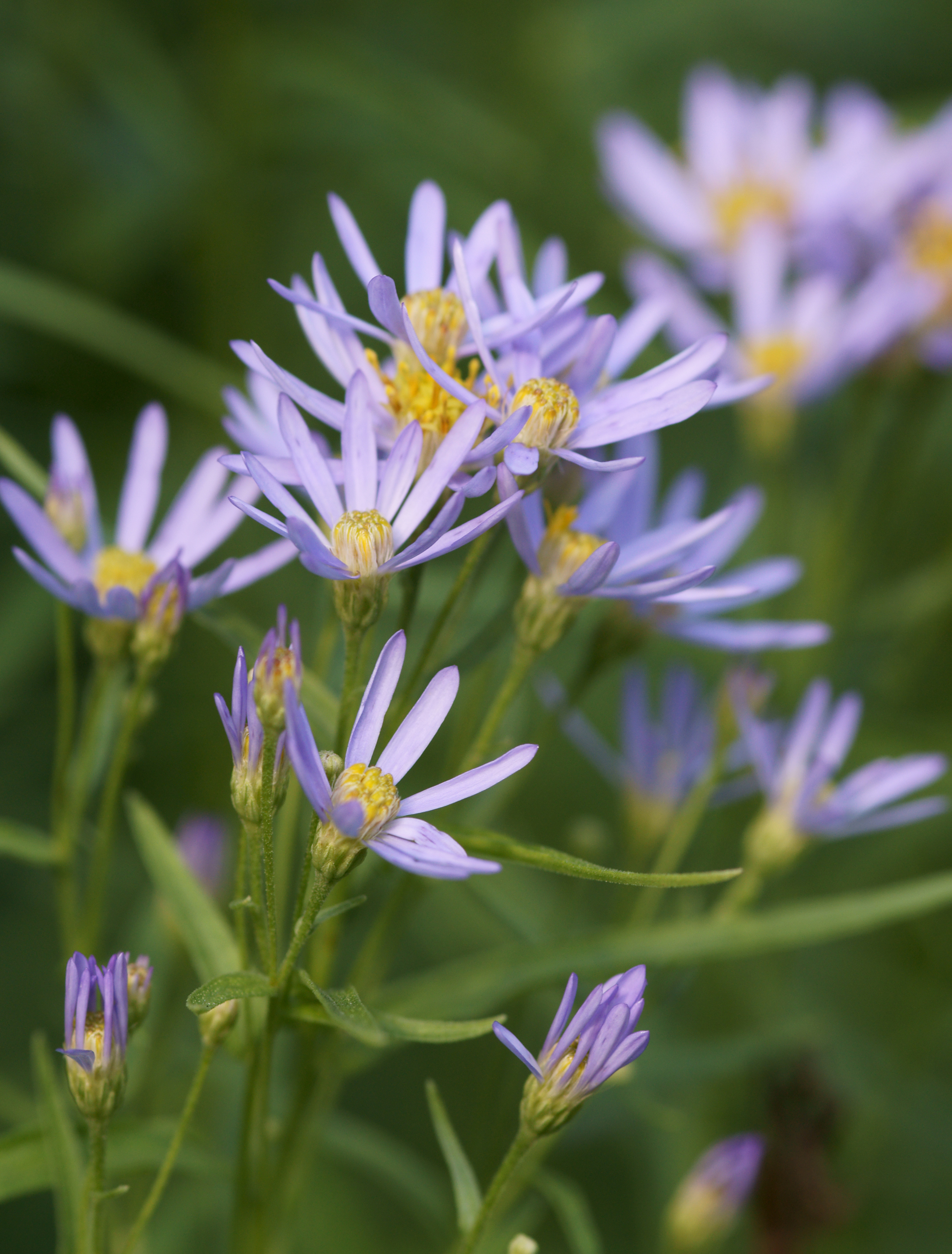 Aster tripolium.